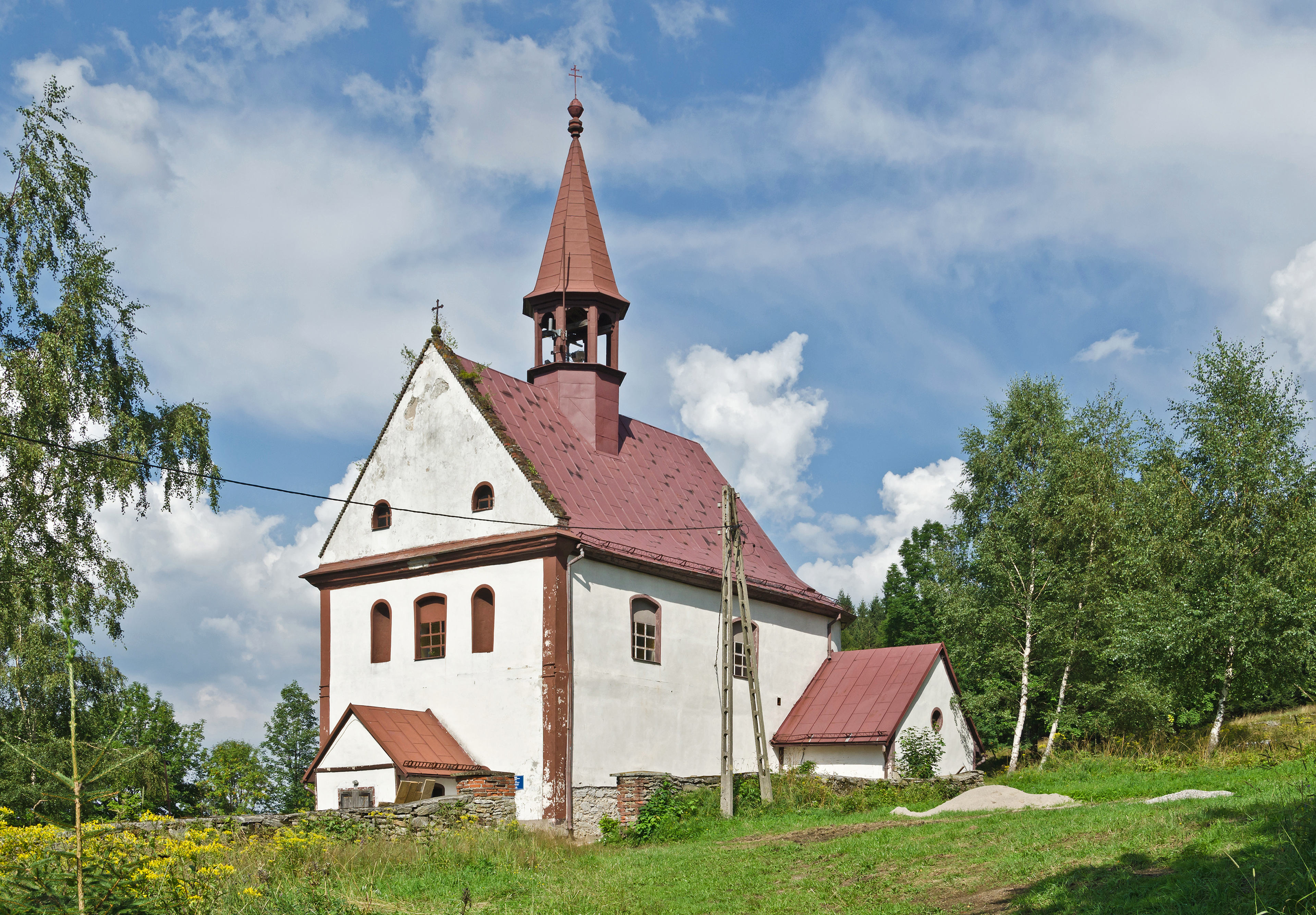 St. Michael the Archangel church in Sienna